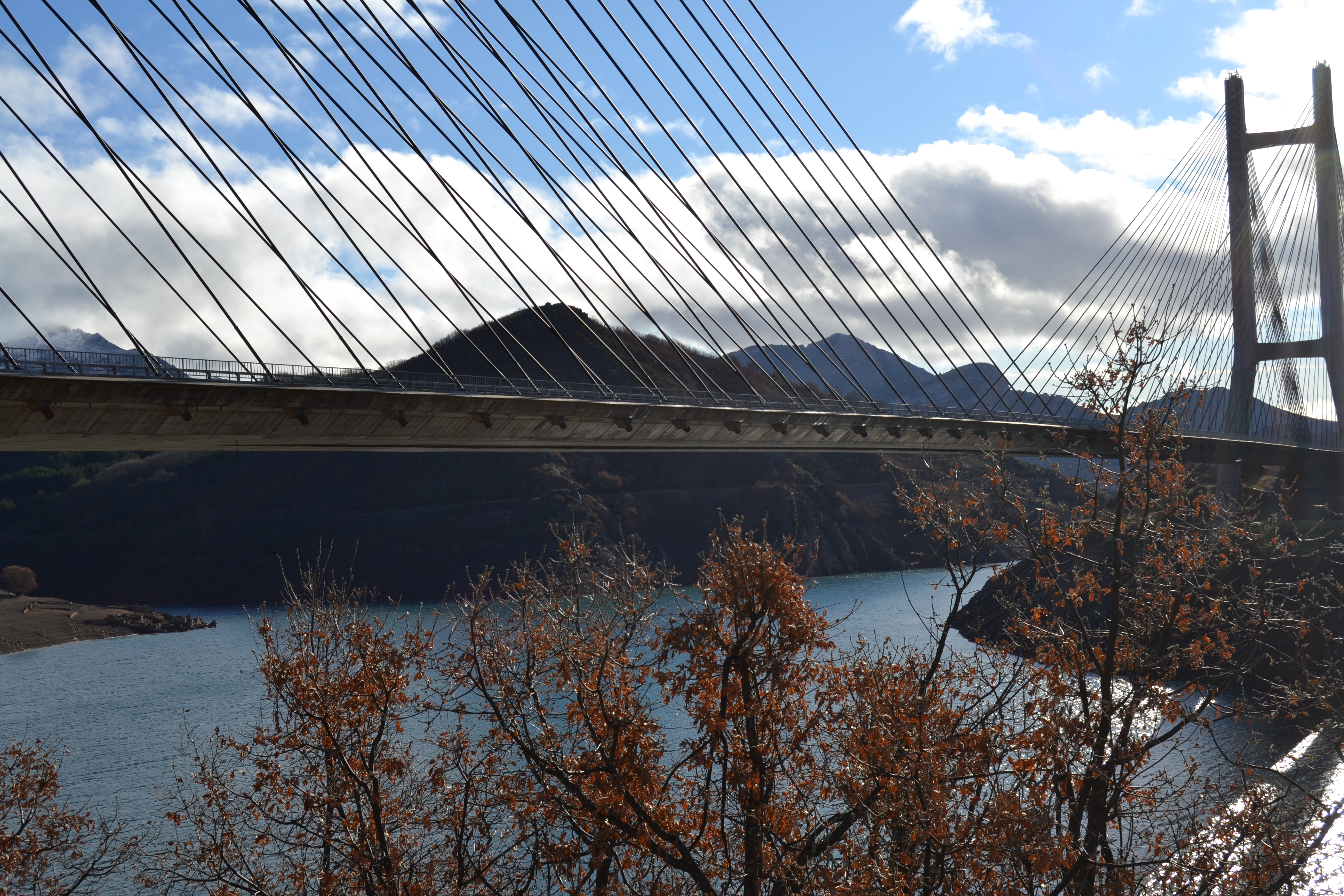 Entorno de San Emiliano.